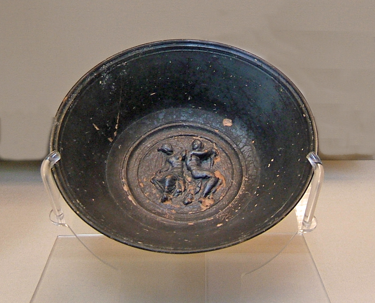 Campanian ware; black-slip bowl with relief-moulded decoration of Mars and Venus. About 250-150 BC. British Museum, London. GR 1900.7-27.5